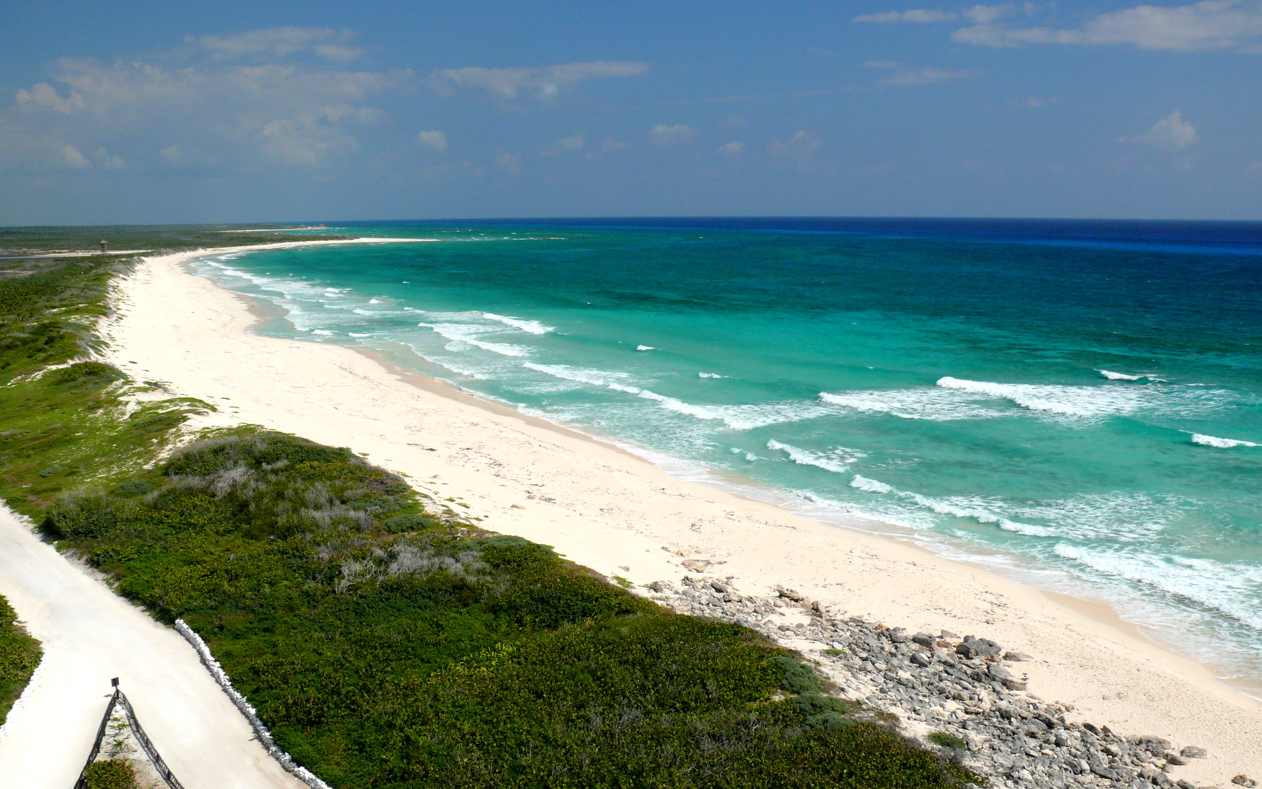 Looking north along the windward (eastern) coast from the top of the Punta Sur (South Point) lighthouse.Photo taken with a Panasonic Lumix DMC-FZ50 on the island of Cozumel in Quintana Roo, Mexico.